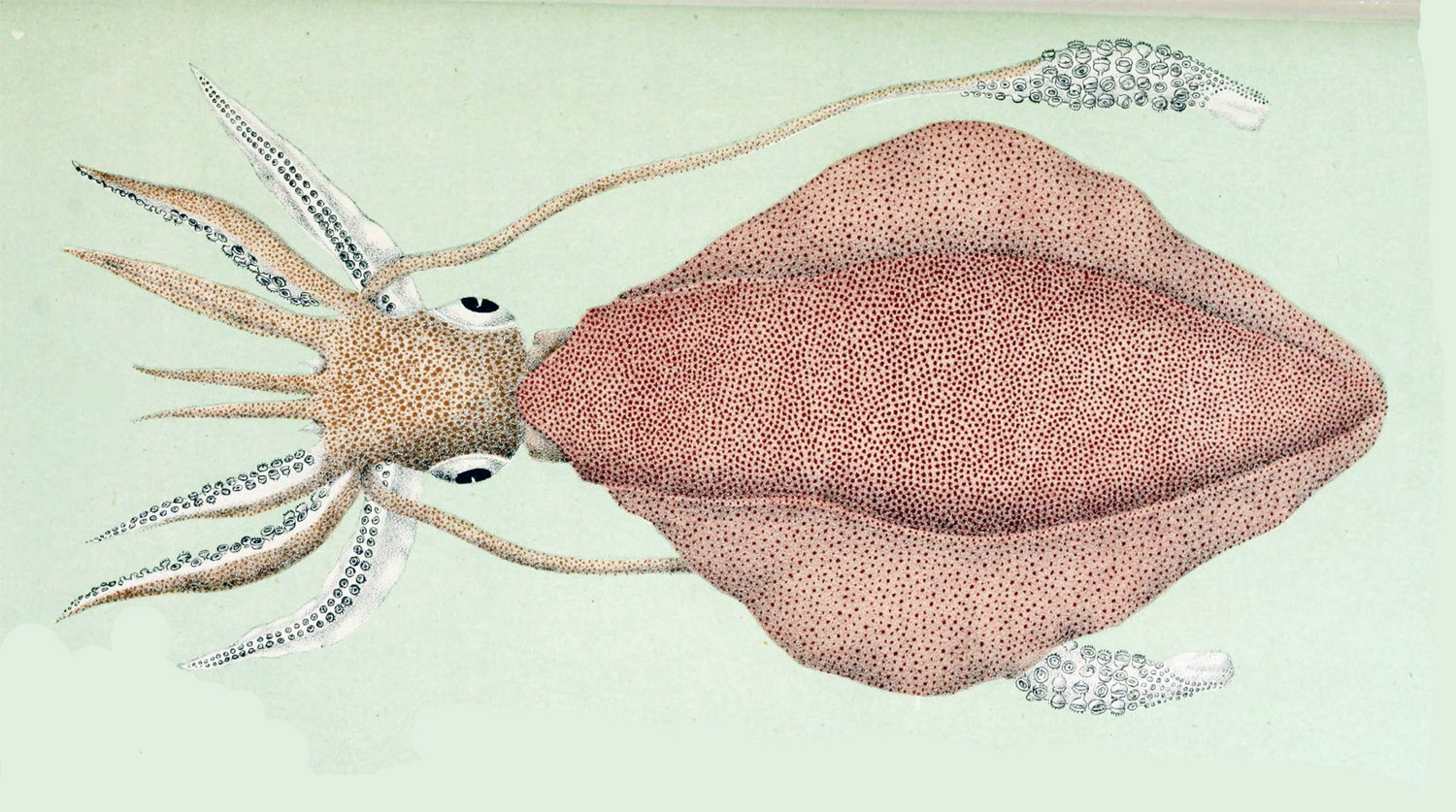 Sepioteuthis australis